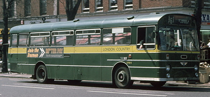 London Country (National Bus Company) bus SMW9 (reg. XCY 467J), a 1971 AEC Swift single-decker with Marshall bodywork, pictured in St. Peters Street, St Albans, Hertfordshire. Wearing original LC livery, it also has an NBC advert exhorting people to join the busmen for better pay.